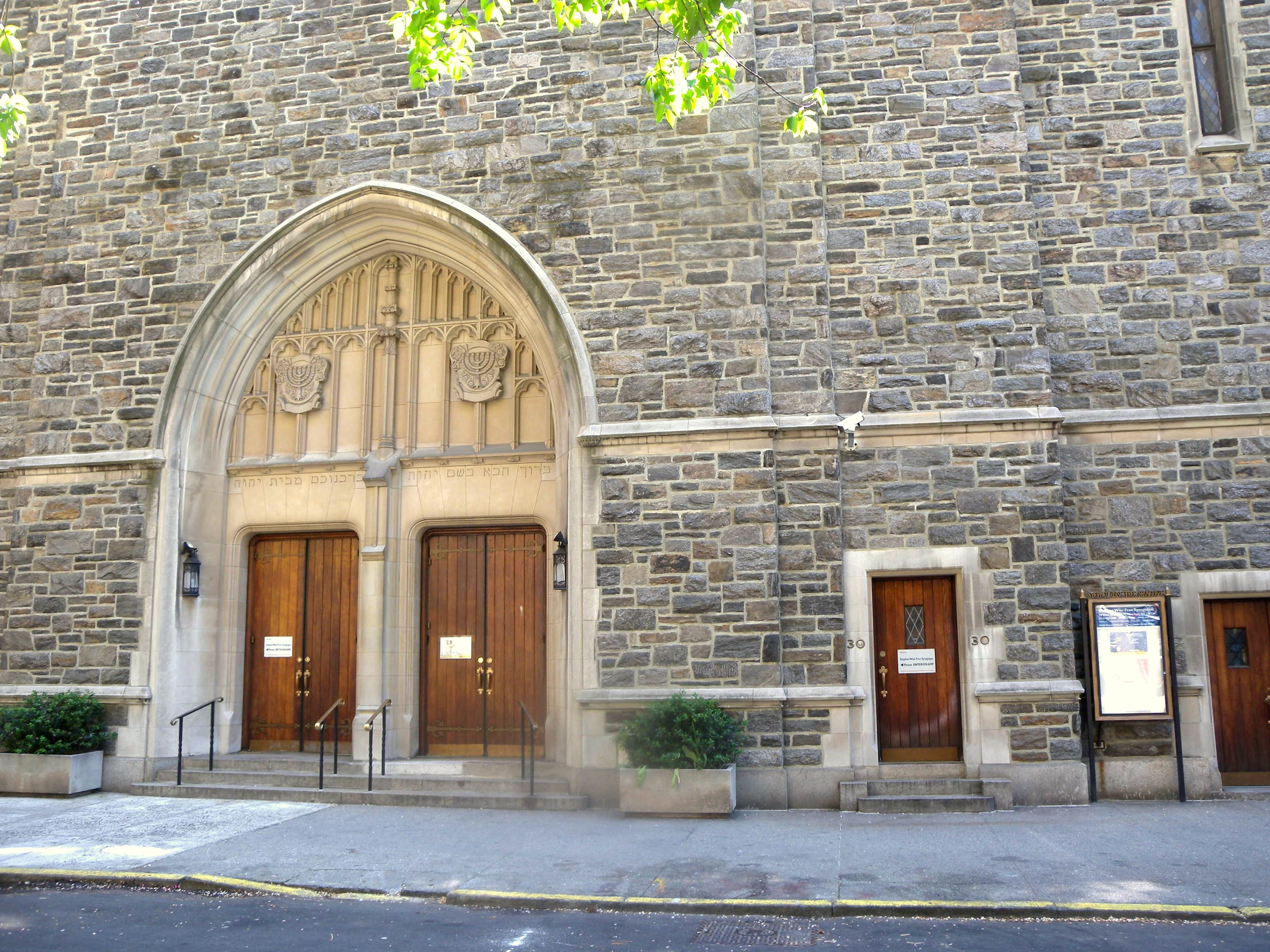 Looking south at Synagogue on a sunny day. ZIP 10023.